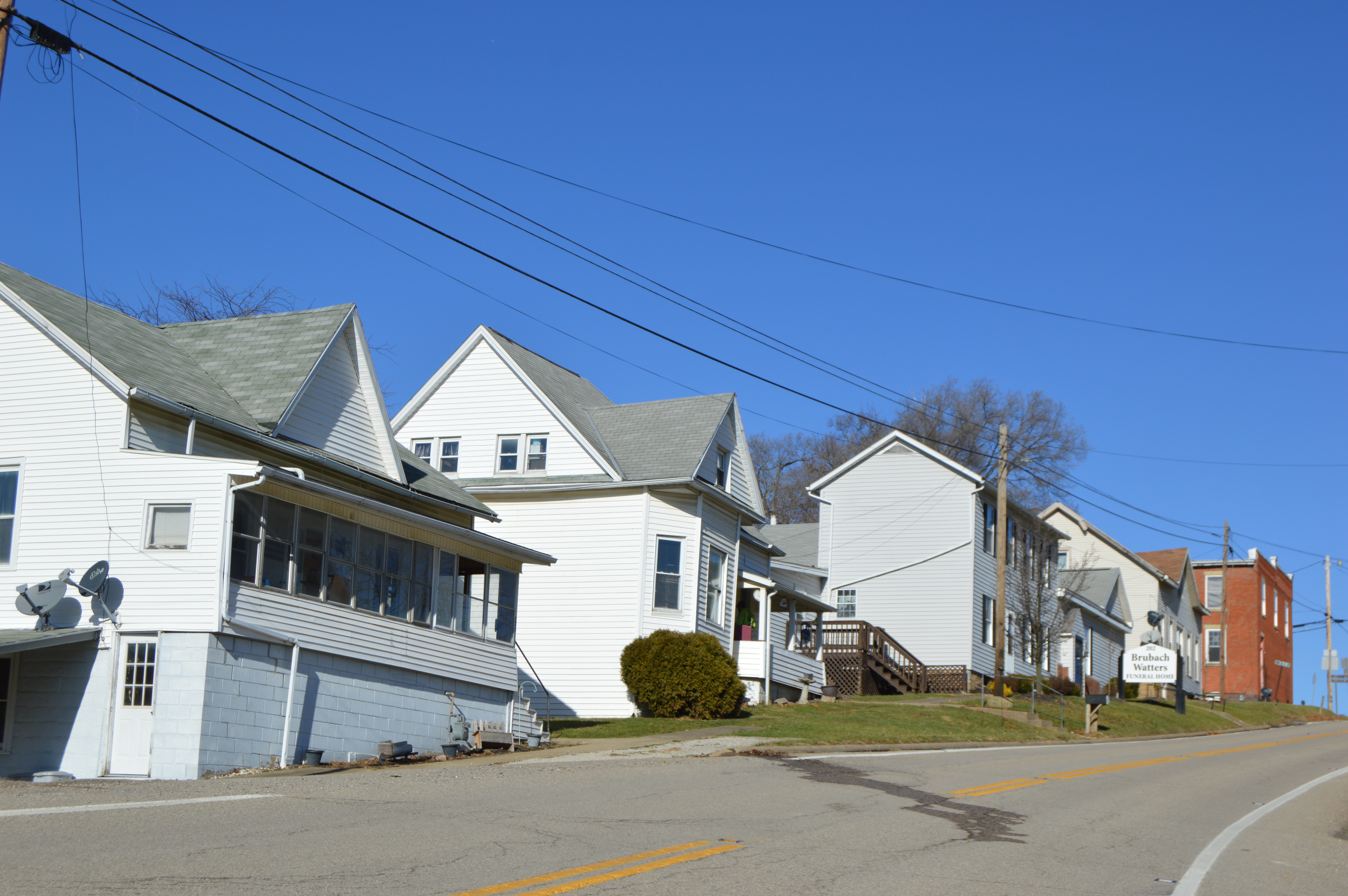 Houses on the western side of Main Street (State Route 146) on the southern edge of Summerfield, Ohio, United States.